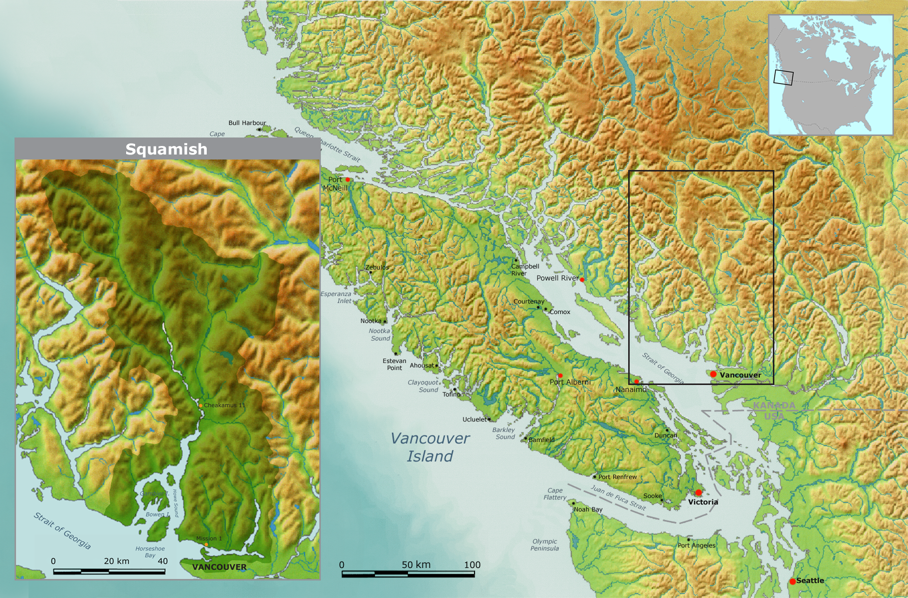 Map of traditional Squamish tribal territory.